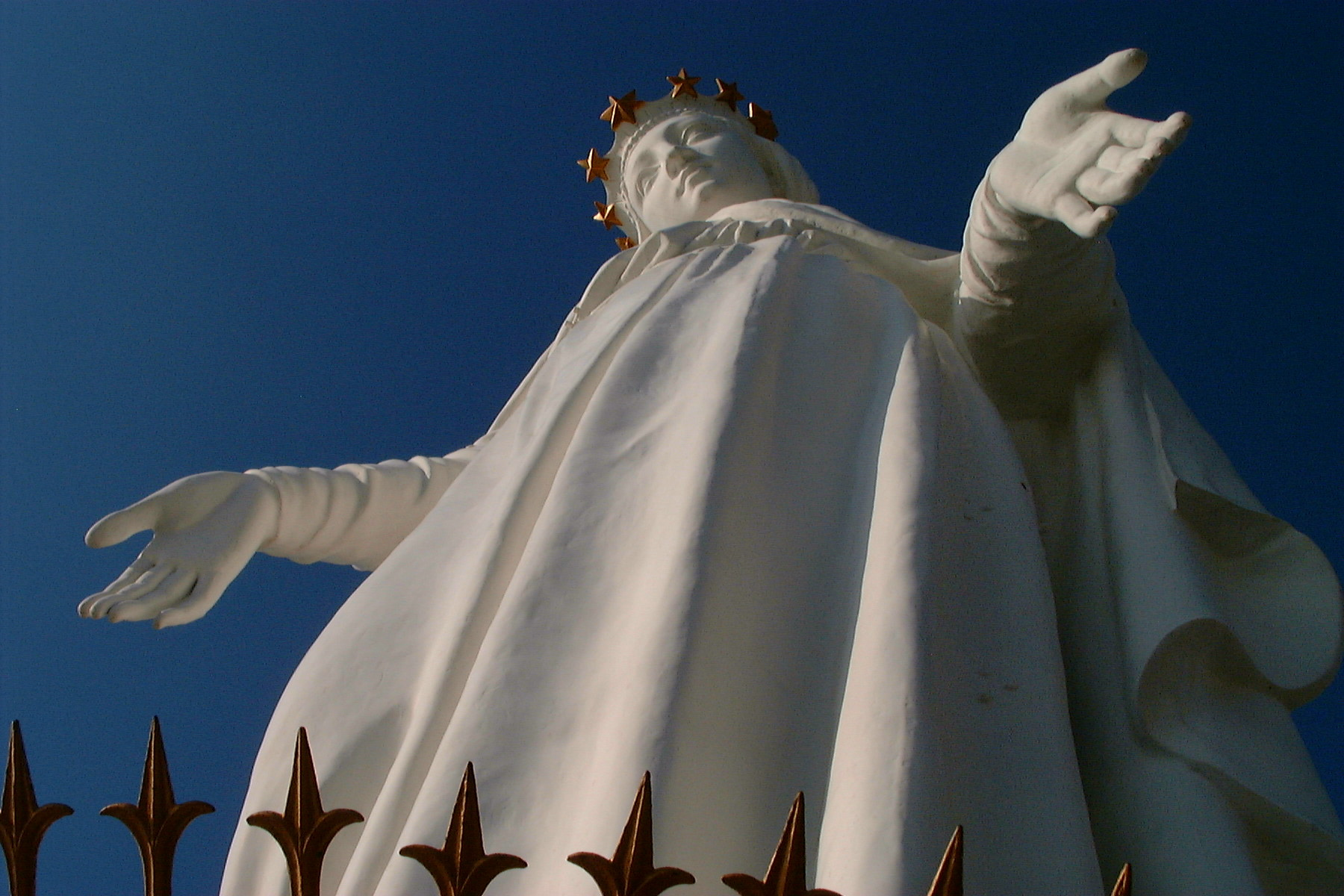 Our Lady of Lebanon viewed from below.